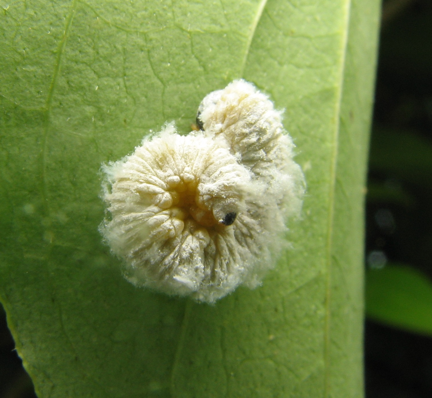 Larva of sawfly Macremphytus testaceus on dogwood, Cornus sp. Briar Bush Nature Center, Montgomery County, Pennsylvania, USA.